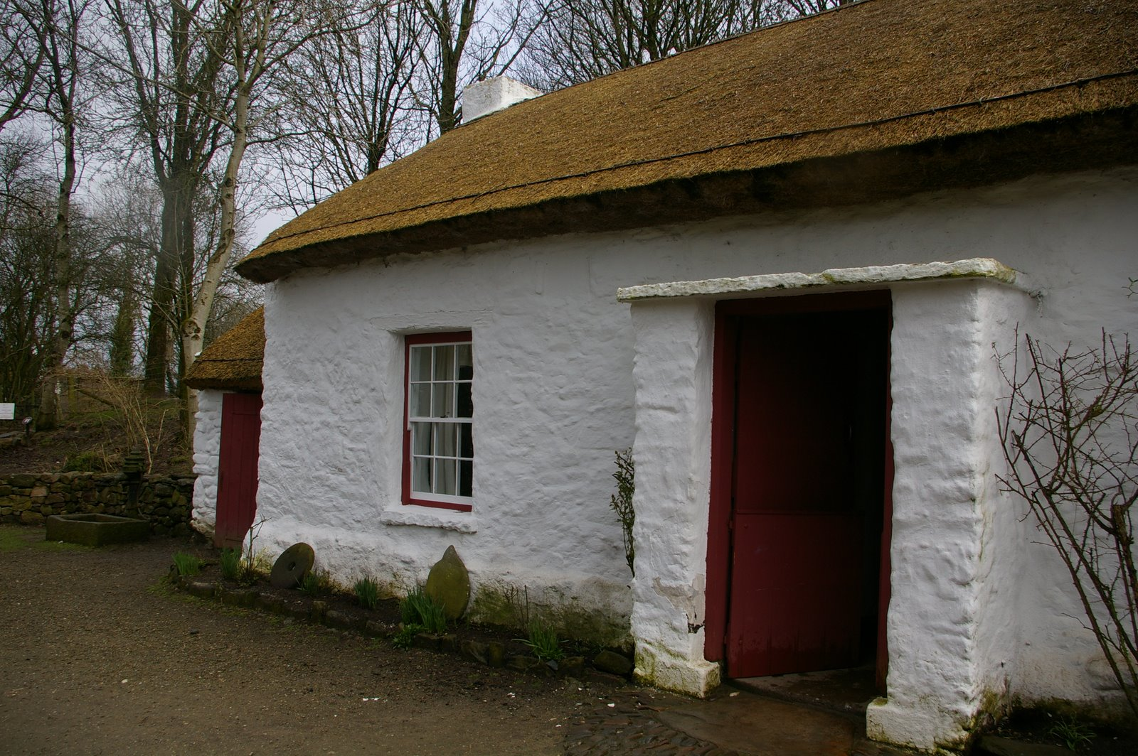 Mellon House, part of the Ulster American Folk Park, Tyrone, Northern Ireland